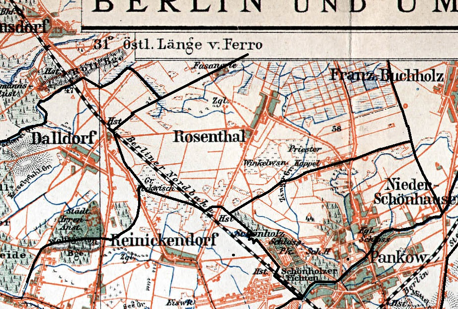 Rosenthal on Map "Berlin und Umgebung", Rectified and projected to equirectangular projection